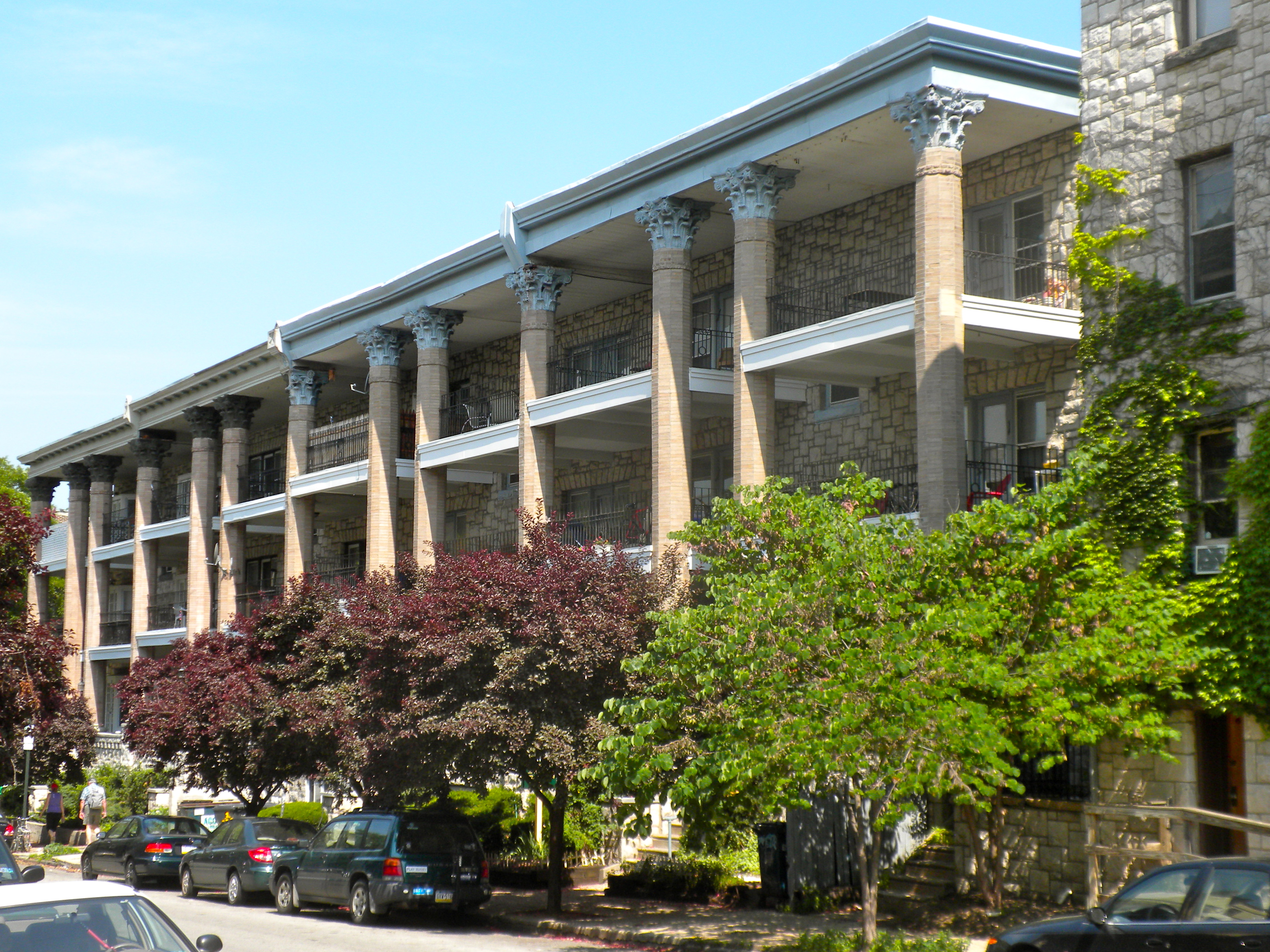 Pinehurst Apartments on NRHP since January 6, 1987. At 4511–4523 Pine and 324–334 South 45th Streets in Spruce Hill neighborhood of west Philadelphia